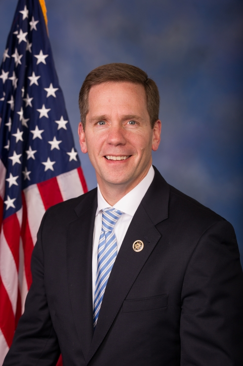 Robert Dold